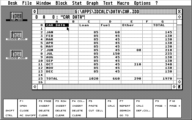 3D-Calc spreadsheet desktop.